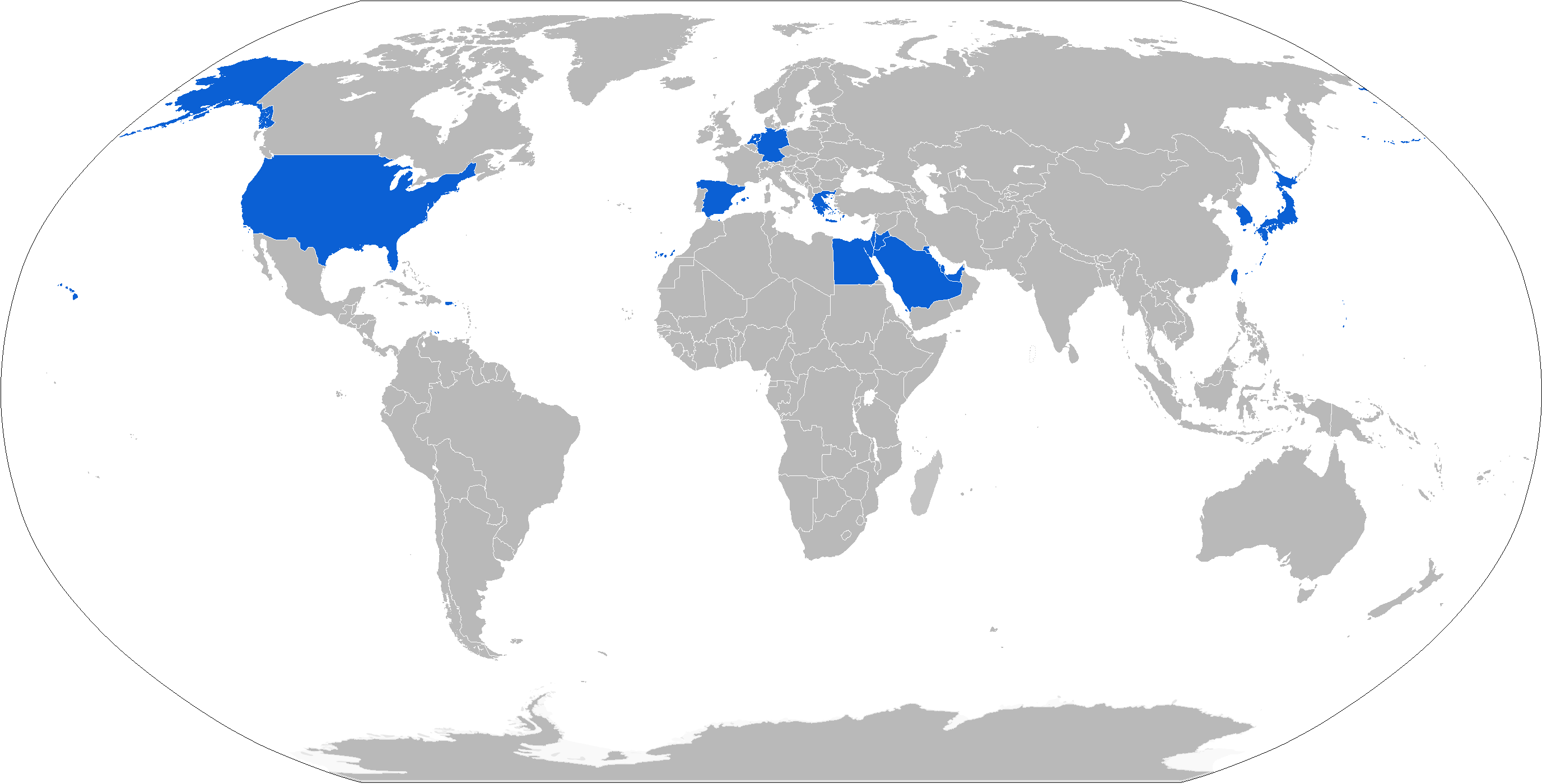 Map with NIM-104 operators in blue